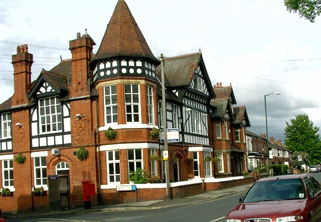 Bankfield Hotel. Closed at the moment, the Bankfield is on the A57. At one time this was the main road from Manchester to Sheffield.